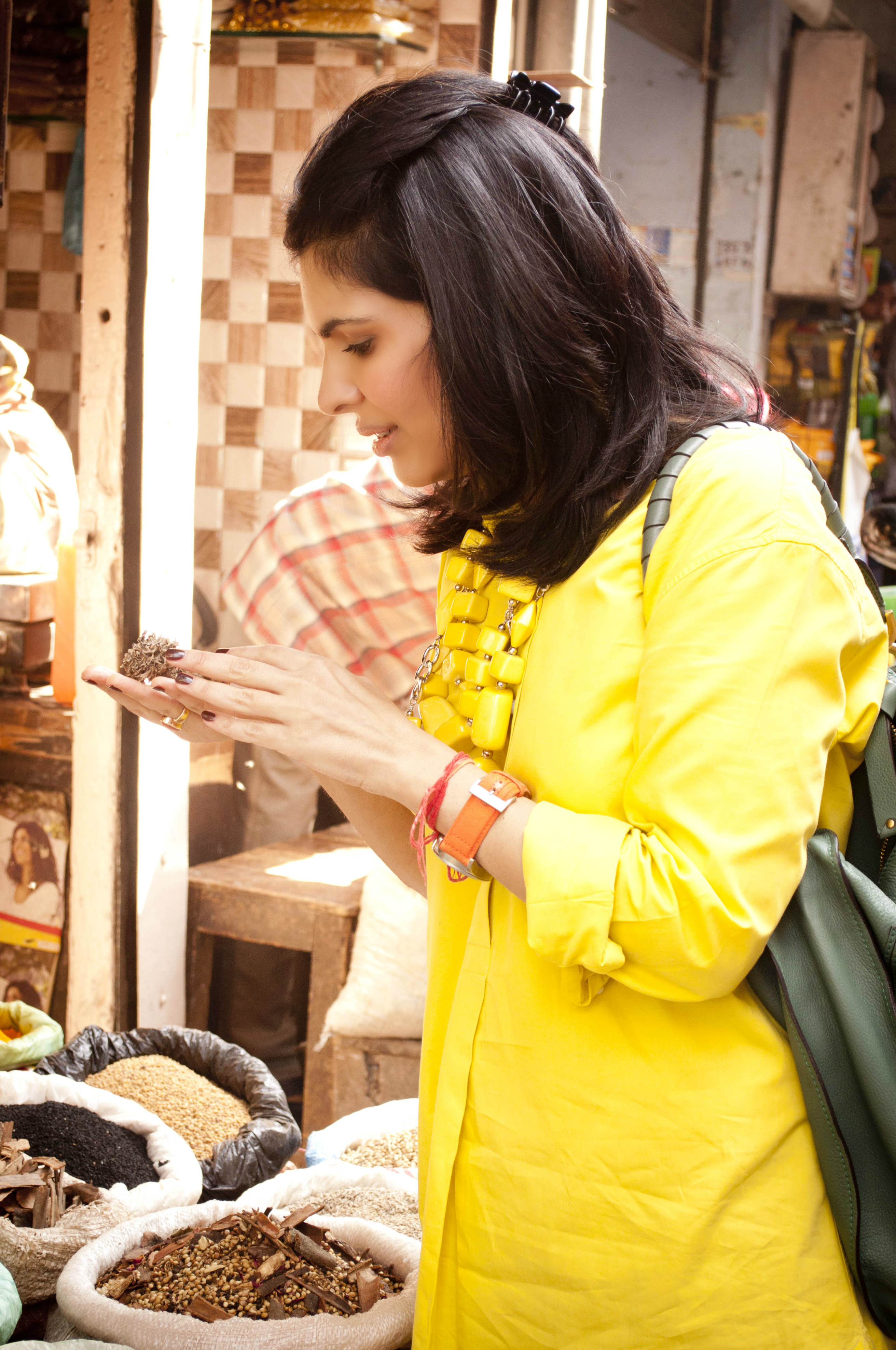 British Chef Anjum Anand when she visited the Golden Temple in Amrithsar, Punjab, India in November 2013